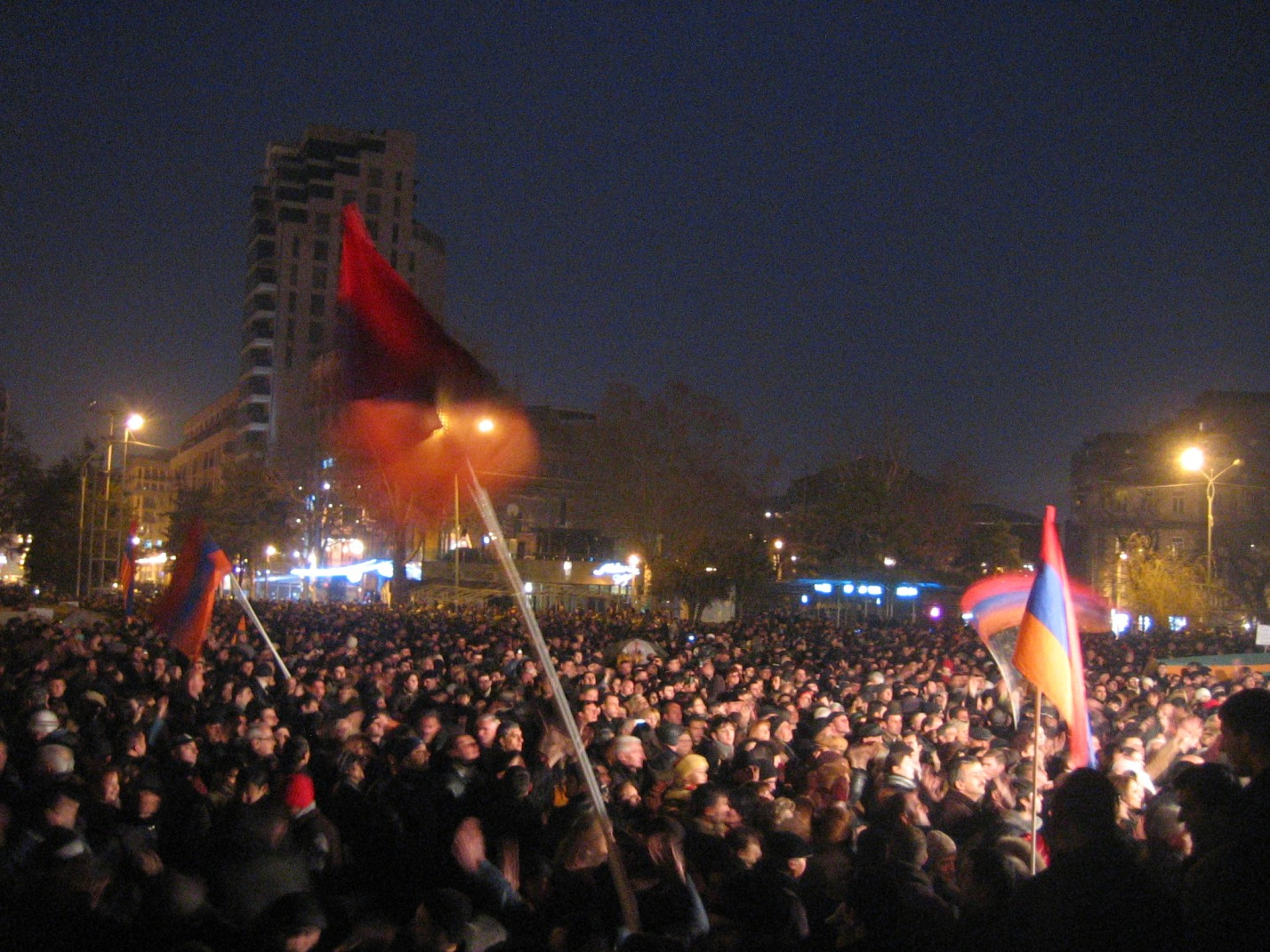 The fifth day of of Armenian presidential election protests. During the night, a crowd of about 30-40,000 people carried out a peaceful rally at the Opera (Freedom) Square in the capital Yerevan.